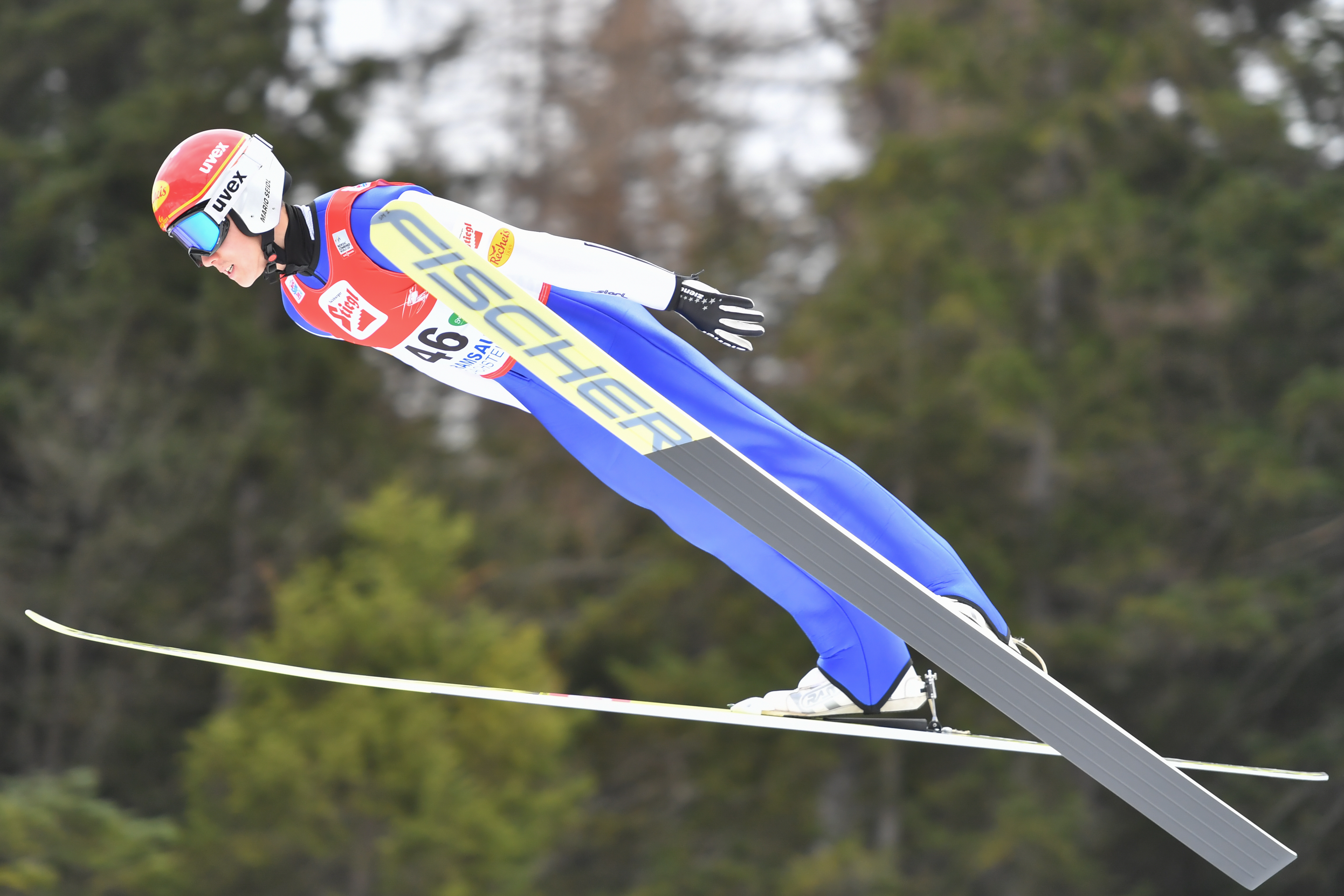 FIS World Cup Nordic Combined, Ramsau/Austria, 2016-12-16 to 2016-12-18.